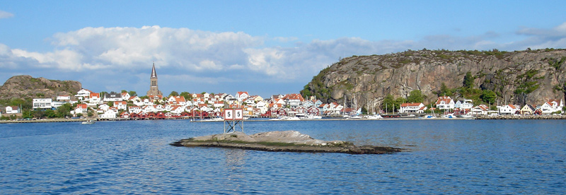 Gudmundskaret W Fjallbacka, Sweden